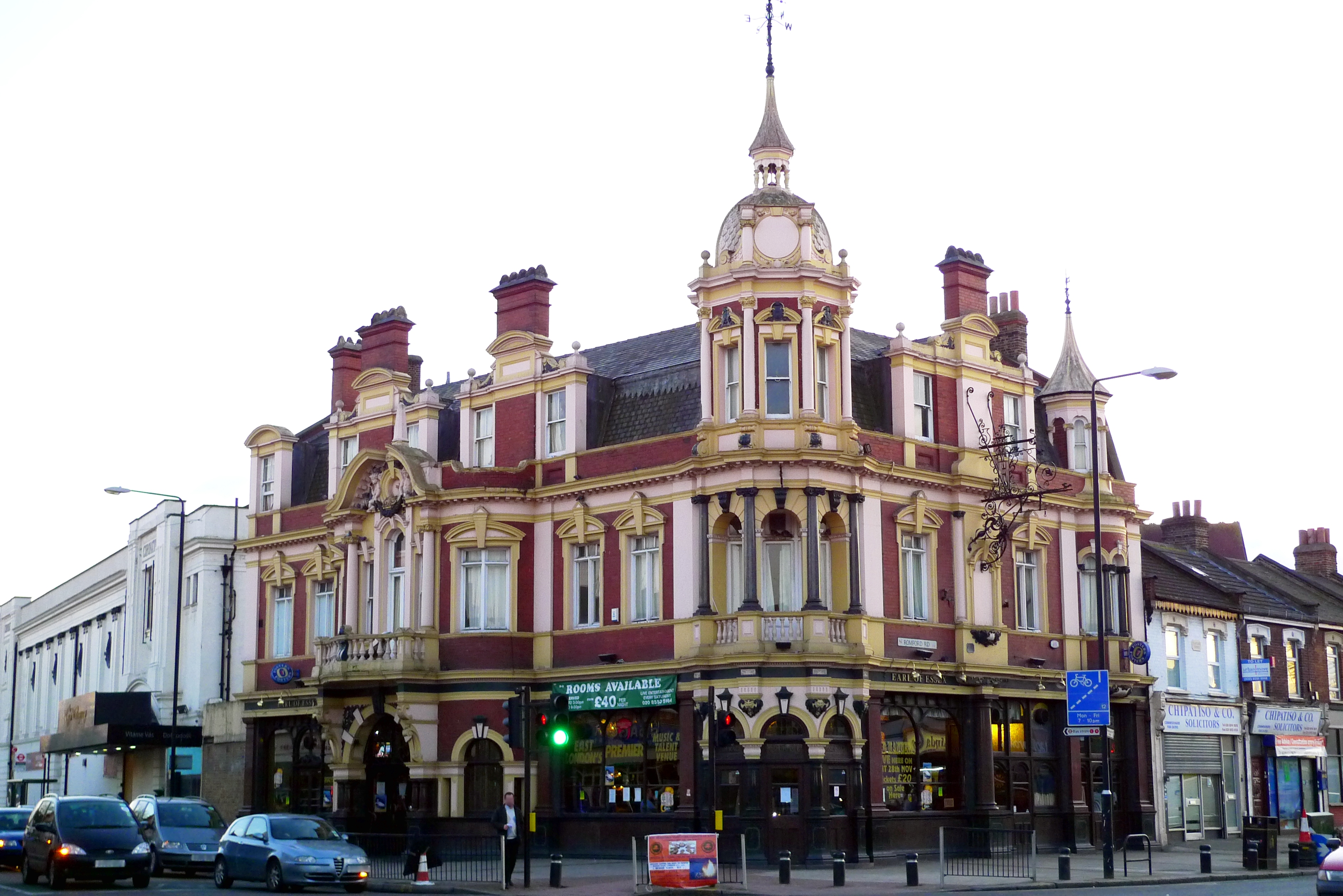 A grand pub building on a busy intersection. There's some nice ironwork on that hanging sign. Address: 616 Romford Road. Owner: Courage (former). Links: Beer in the Evening Dead Pubs (history)